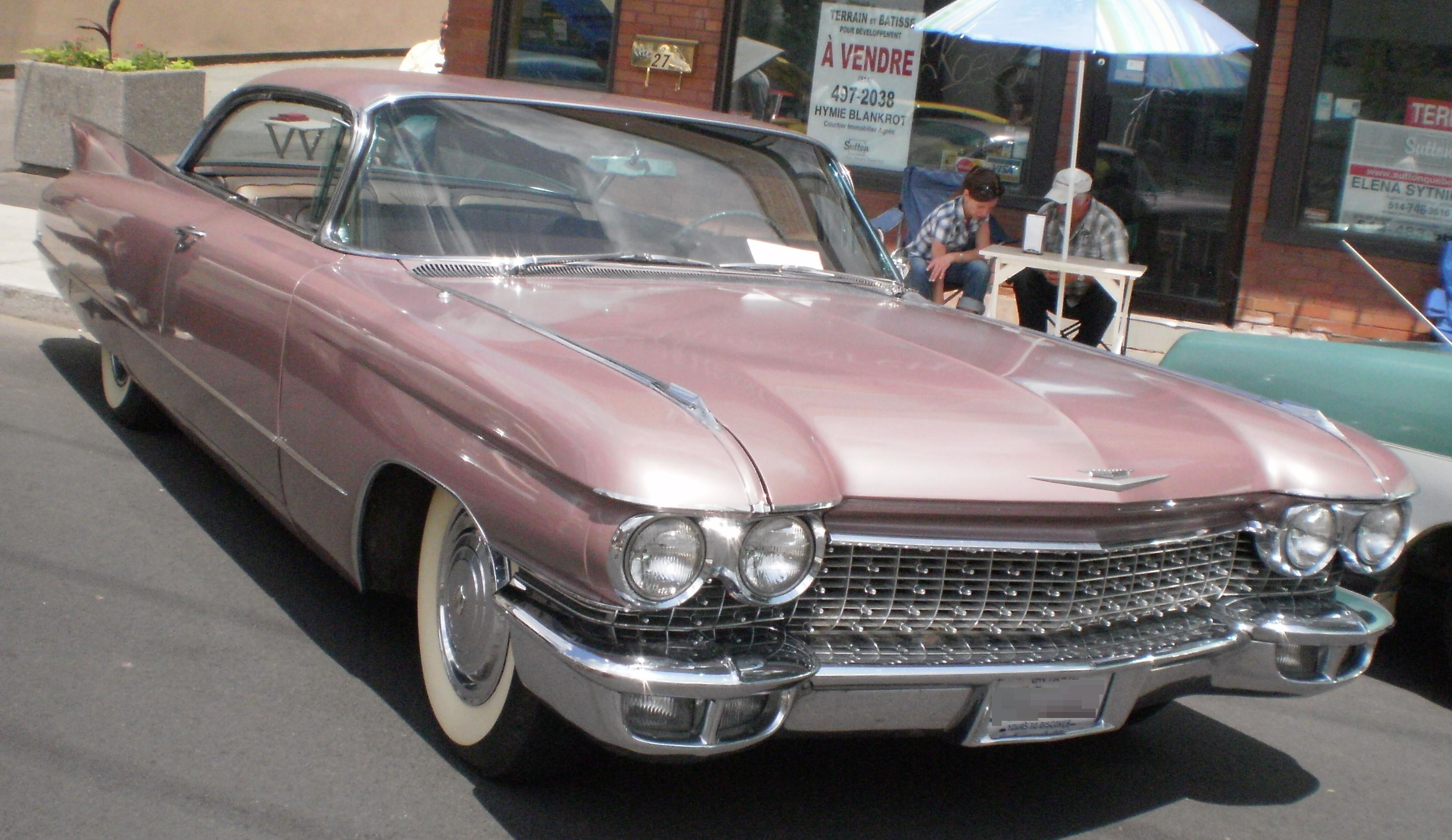 1960 Cadillac Coupe de Ville photographed in Ste. Anne De Bellevue, Quebec, Canada at Crusin' At The Boardwalk 2011.